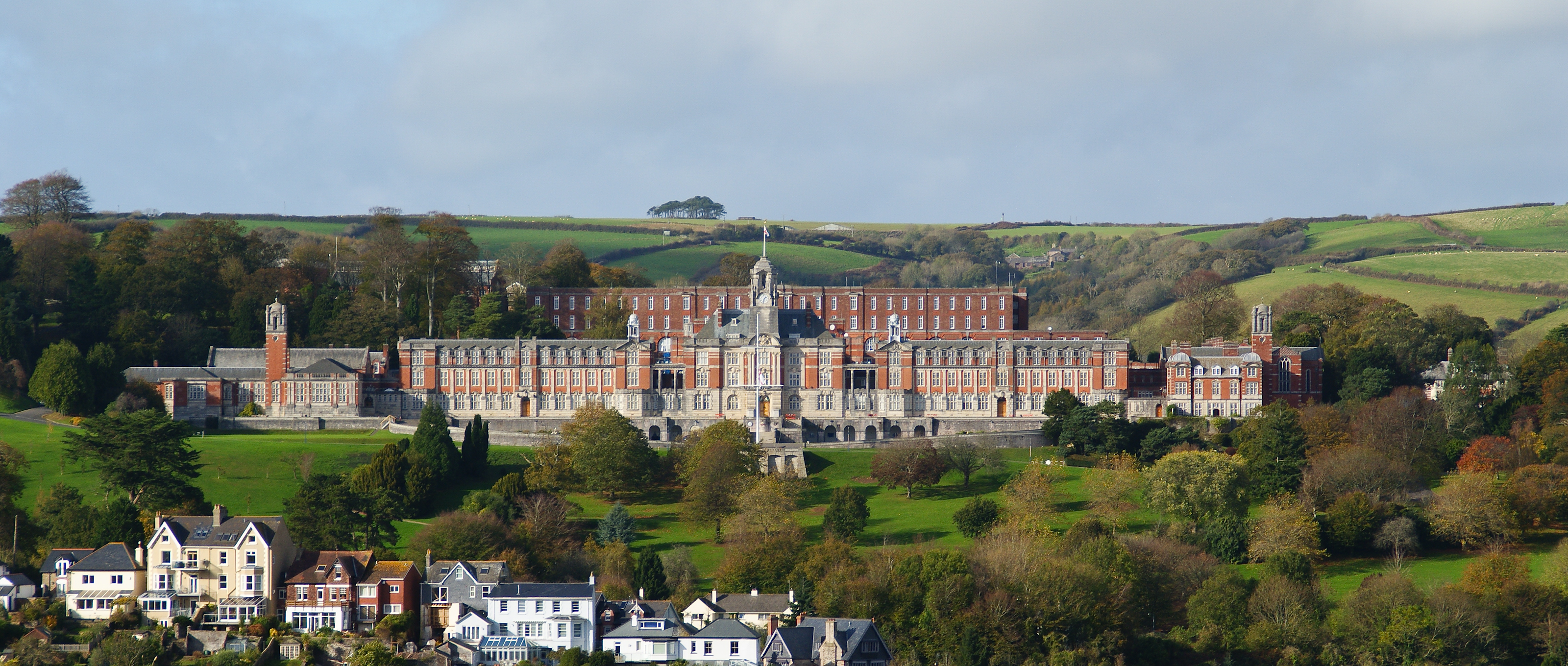 Britannia Royal Naval College at Dartmouth in Devon, UK. The picture is taken from the other side of the River Dart at Kingswear.